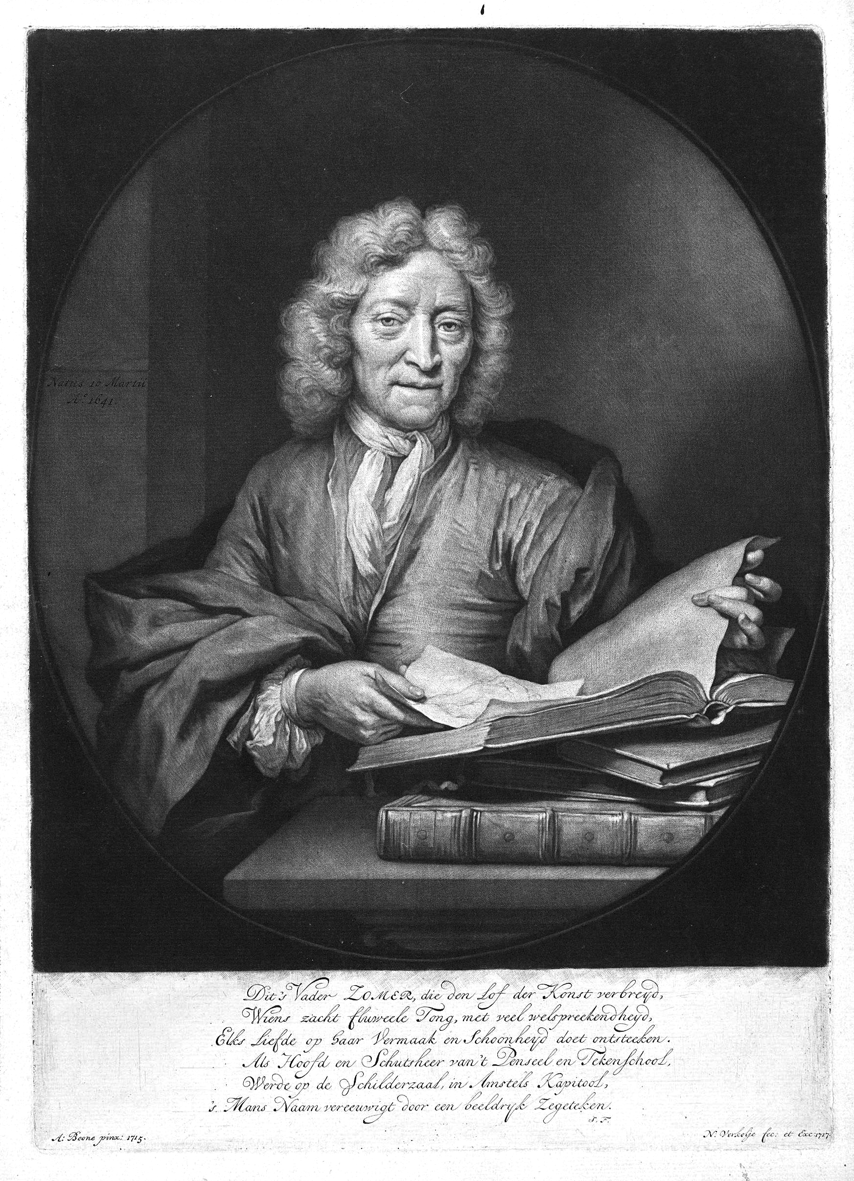 Jan Pietersz. Zomer (1641-03-10 - 1726-05-18) mezzotint engraving on paper 1717